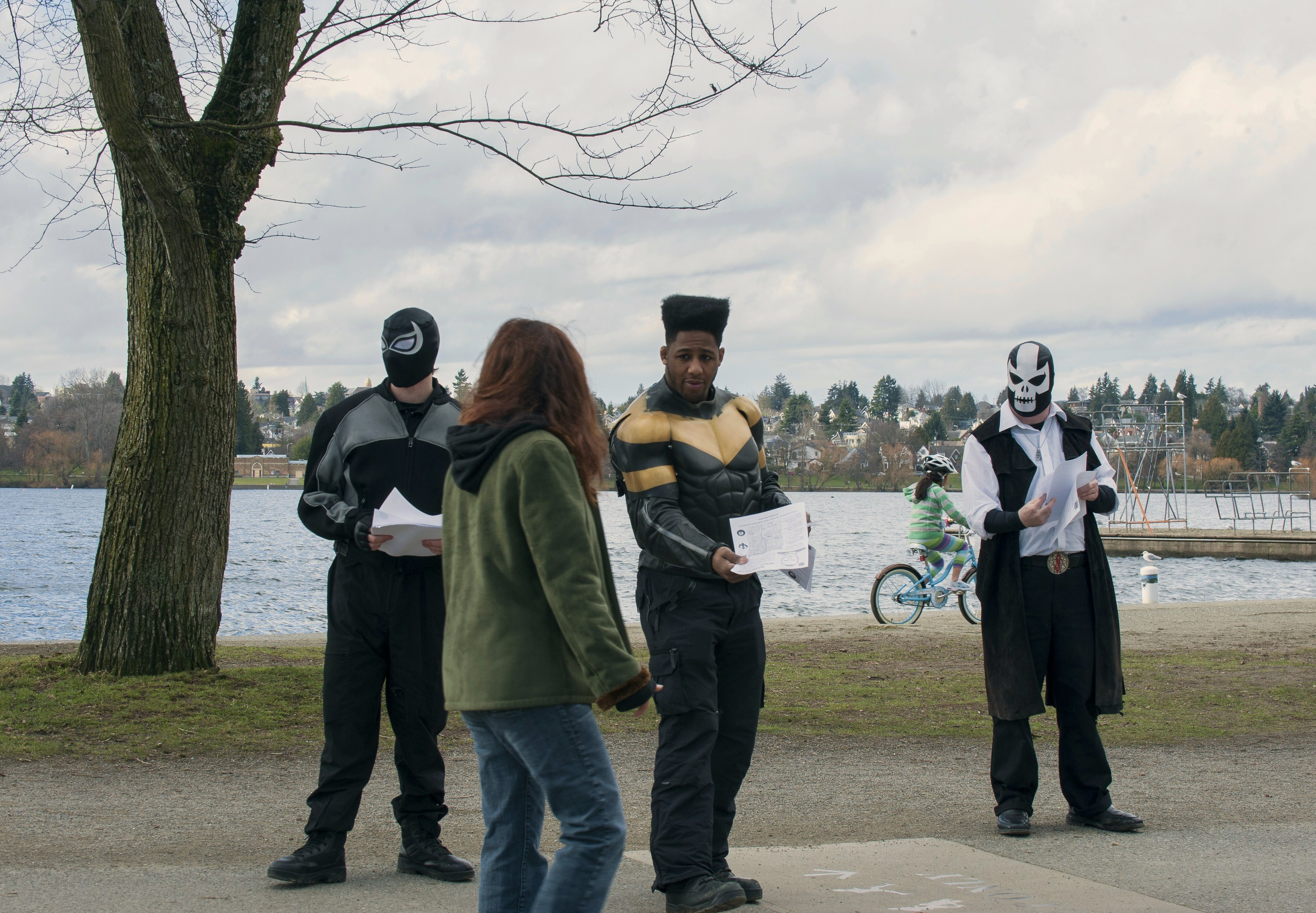 Phoenix Jones and members of the Rain city super hero movement pass out flyers with a description of a serial predator who may be in the north Seattle area. Greenlake, WA. 2013